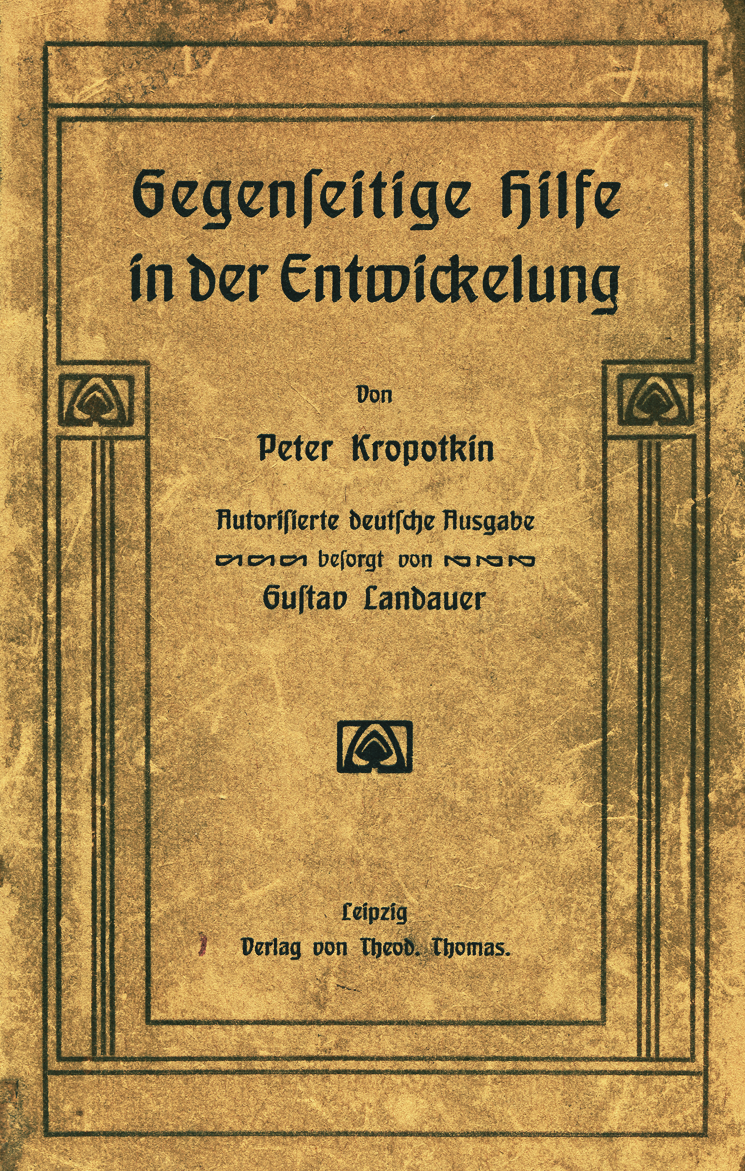 Title page of Mutual Aid. A factor of evolution. by Peter Kropotkin in German. Gustav Landauer translated the book in 1904 for the first time into German.